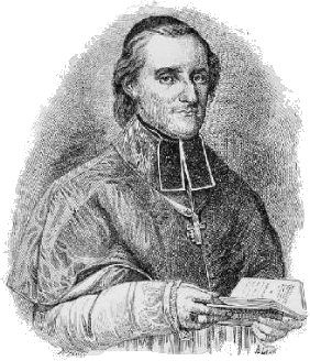 Charles-Auguste-Marie-Joseph, Count of Forbin-Janson (born in Paris, France, 3 November 1785; died near Marseilles, 12 July 1844) was a French Bishop of Nancy and Toul, and founder of the Association of the Holy Childhood.